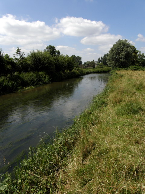 The river Reyssouze at Viriat downstream Bourg-en-Bresse (Ain, France)